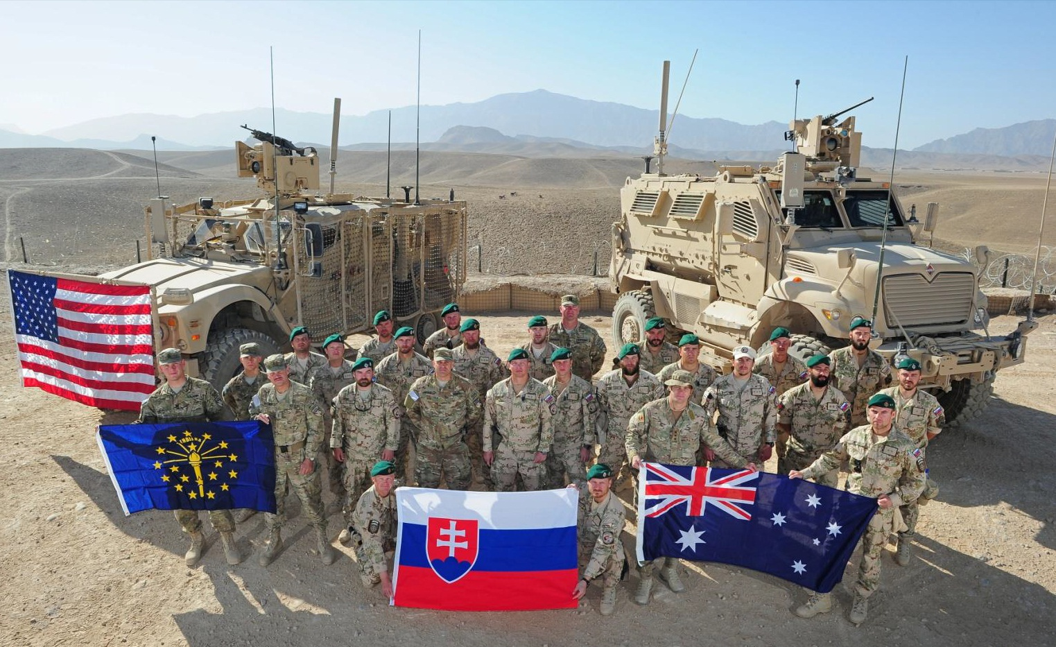 MAT 3 on 17OCT12 at the heavy weapons range in Forward Operating Base Tarin Kowt. MAT 3 consists of 15 Slovakians, 5 Americans, and 1 Australian team member. The five Americans are all from the Indiana Army National Guard.